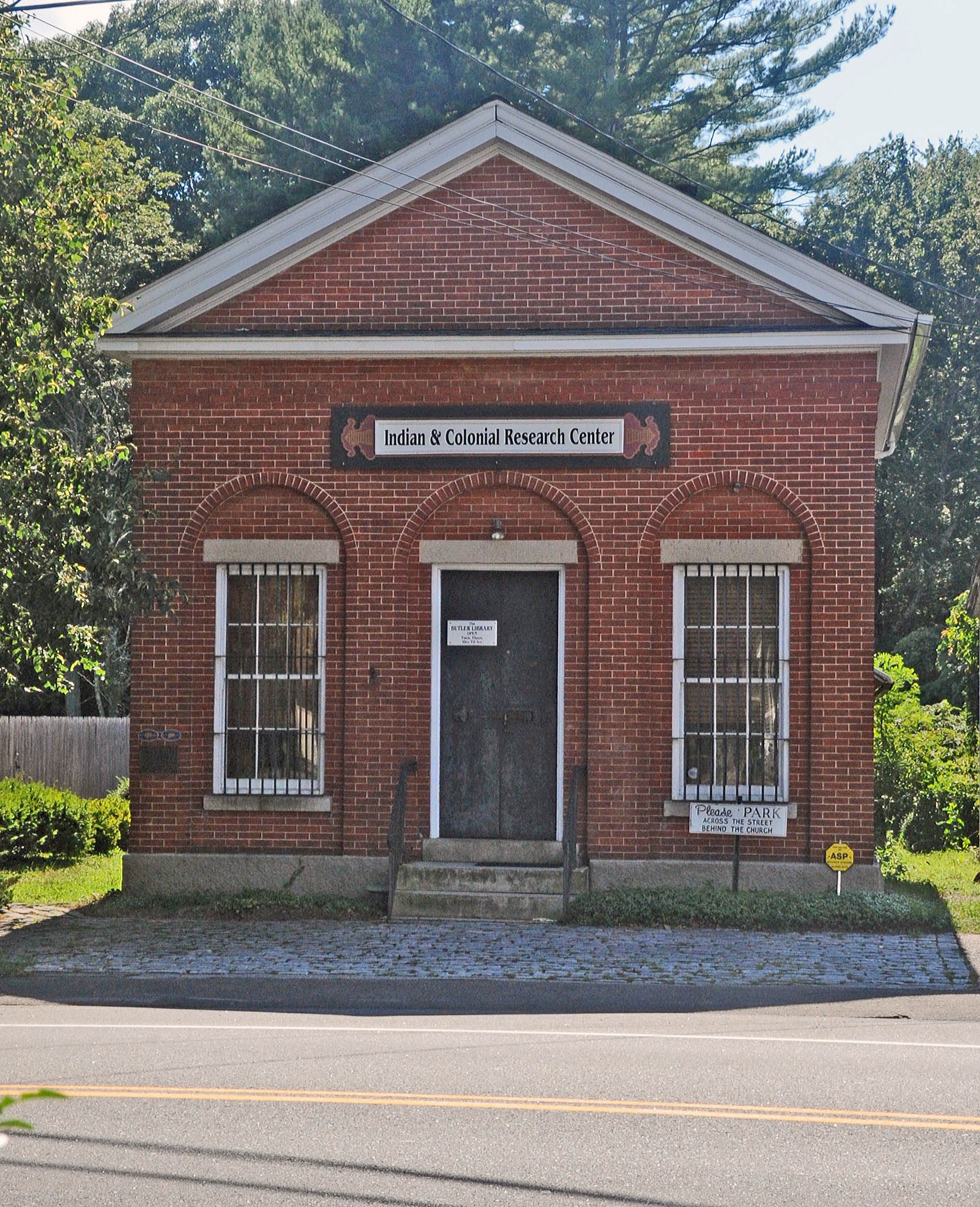 BUILT IN 1856 AND CLOSED IN 1887 AS THE TOWN CENTER GRAVITATED TOWARD THE DRAW BRIDGE NEAR THE WATERFRONT. IT HAS SERVED MANY COMMUNITY FUNCTIONS SINCE THEN INCLUDING INDIAN AND COLONIAL RESEARCH CENTER AND PRESENTLY THE BUTLER LIBRARY